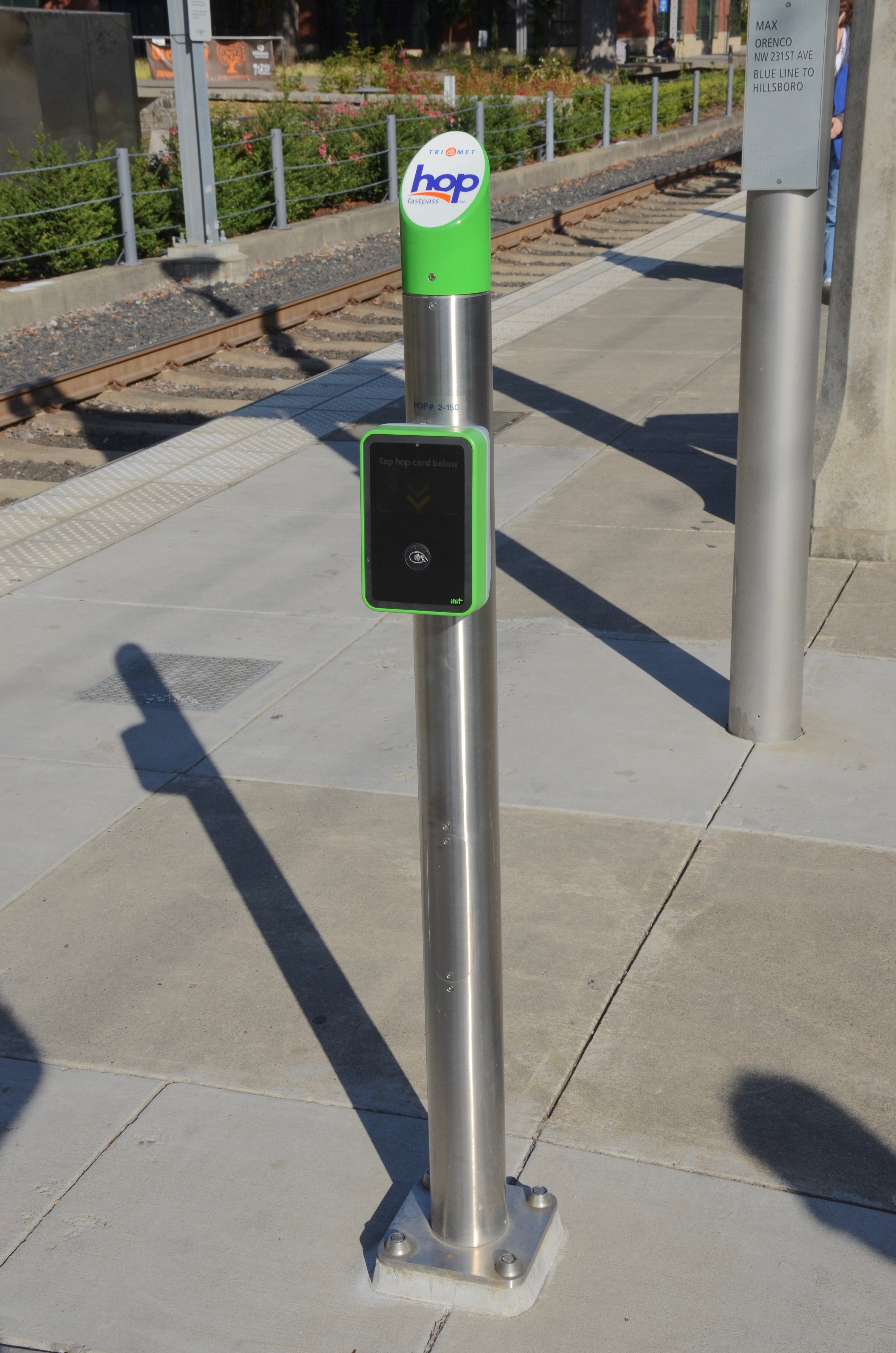 A Hop Fastpass card and ticket reader on the platform of Orenco station, on the MAX Light Rail system.